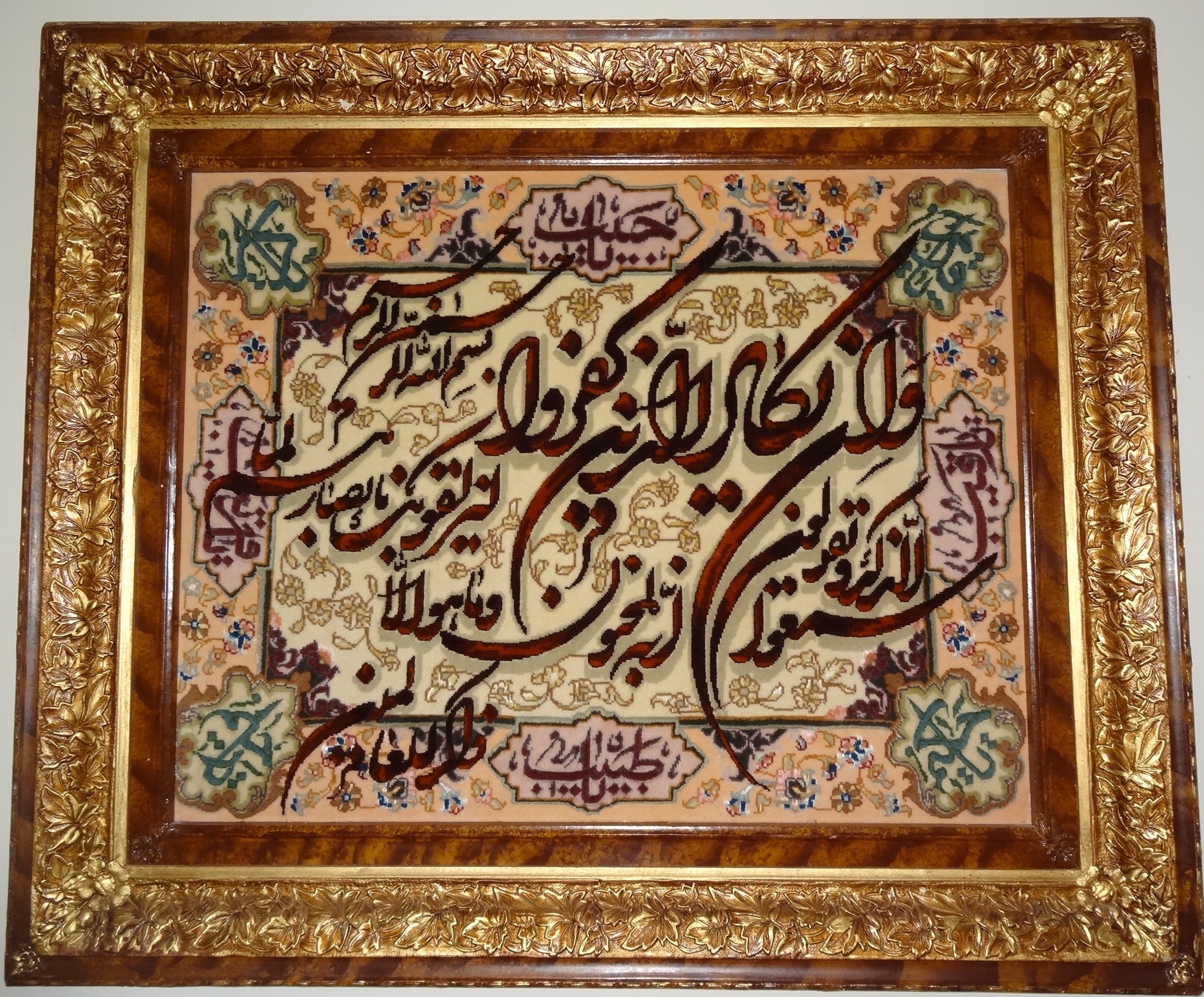 Quran verses written on handmade Persian carpet